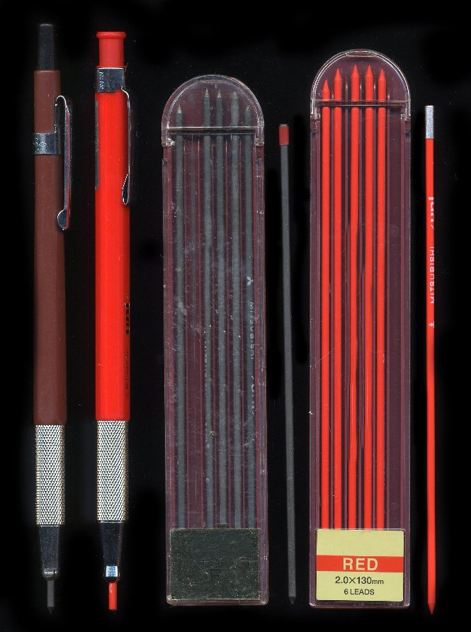 Leadholder(stationery)